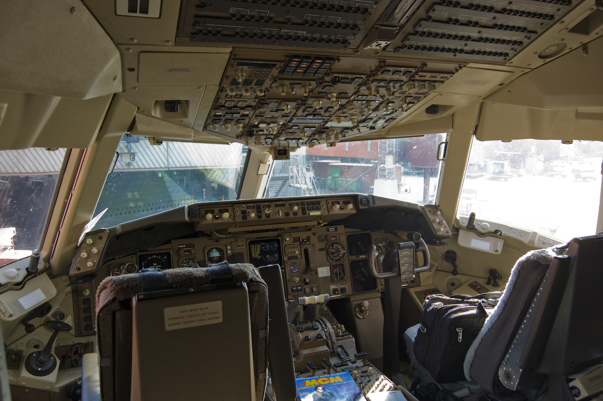 Cockpit of a Boeing 767